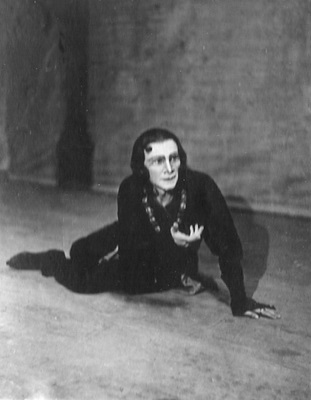 Sharifzade as Hamlet